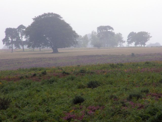 Backley Holmes in the drizzle, New Forest. A fine mist of drizzle hangs over Backley Holmes, with bracken in the foreground, blooming heather beyond that, and in the distance a large area of lawn with scattered oak and Scots pine trees.